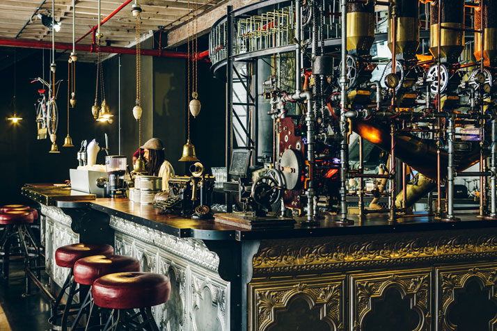 steampunk cafe in Cape Town